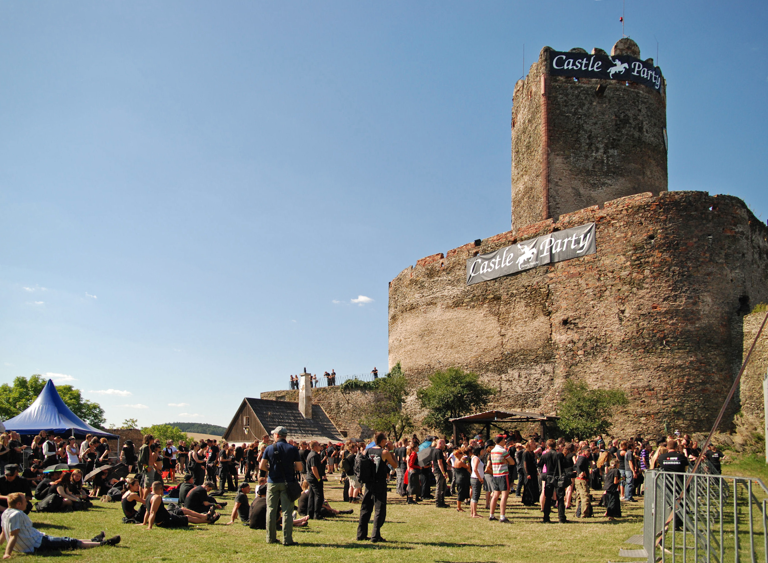 Castle Party 2008